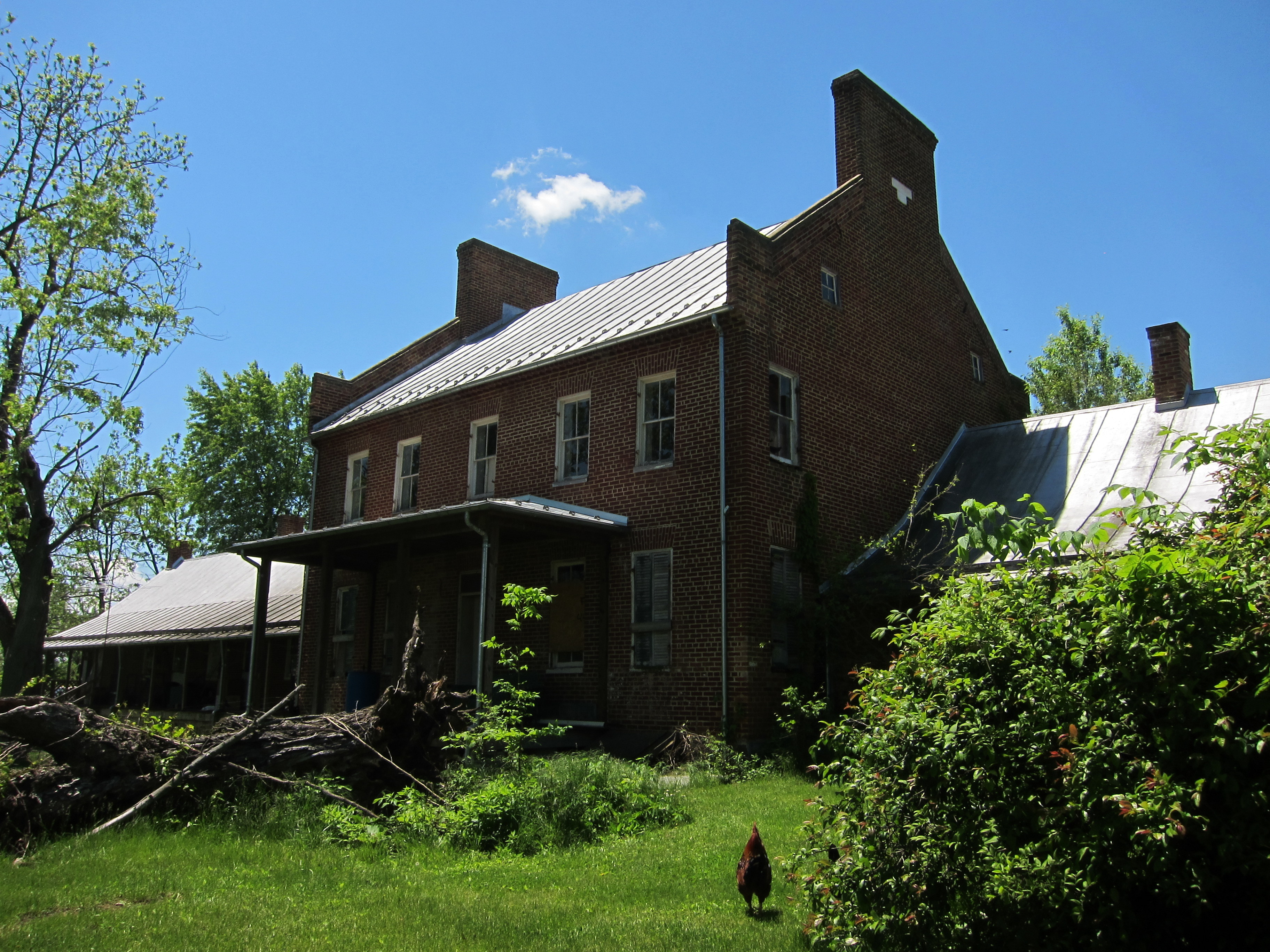 Frederick County Poor Farm is a historic farm located in Frederick County, Virginia, United States.